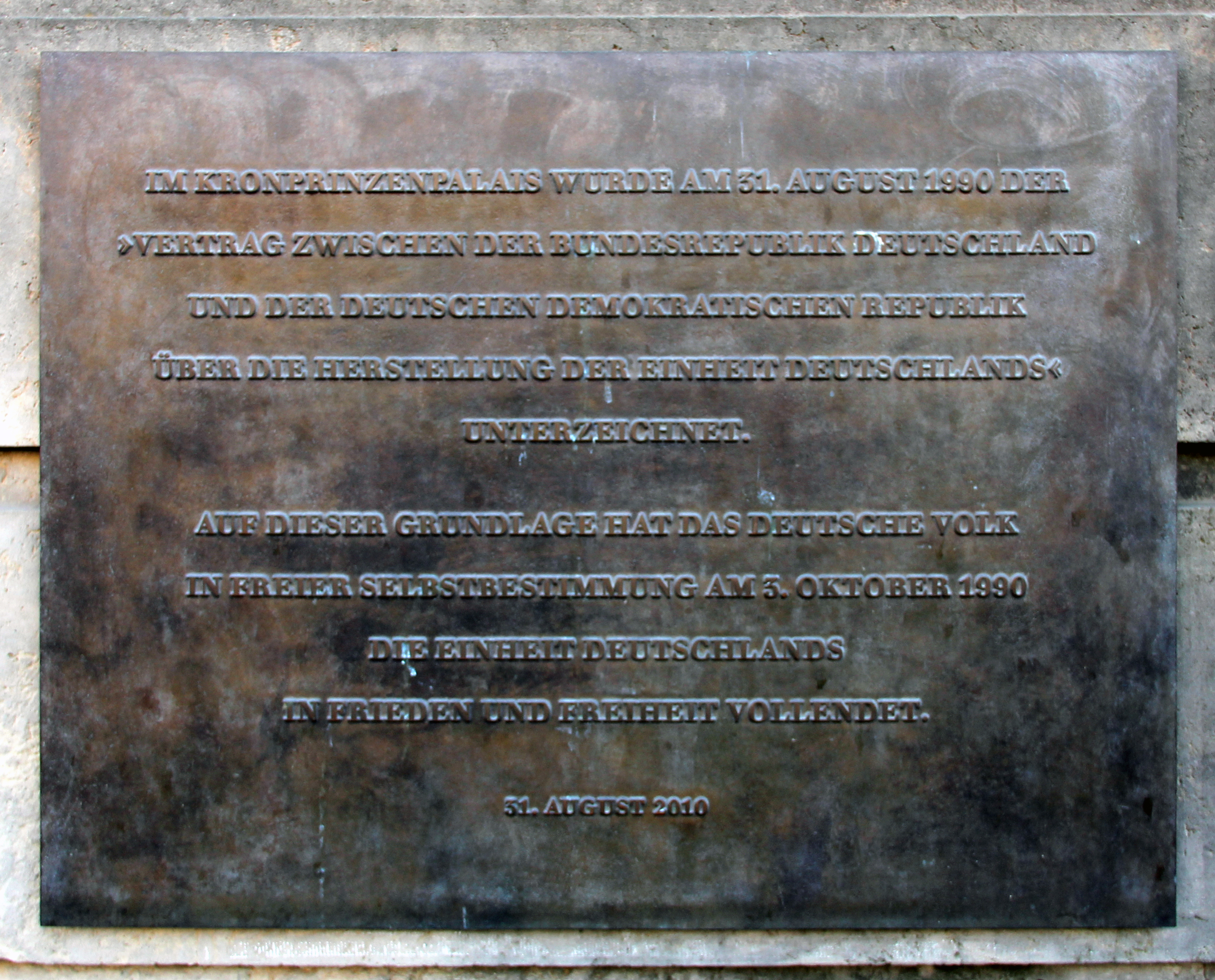 Memorial plaque, Einigungsvertrag, Unter den Linden 3, Berlin-Mitte, Deutschland